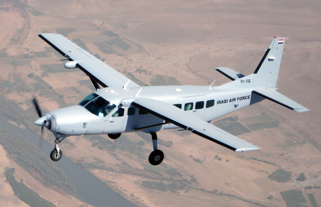 A Cessna 208 Caravan assigned to the Iraqi air force Flying Training Wing flies over Northern Iraq during a recent training mission